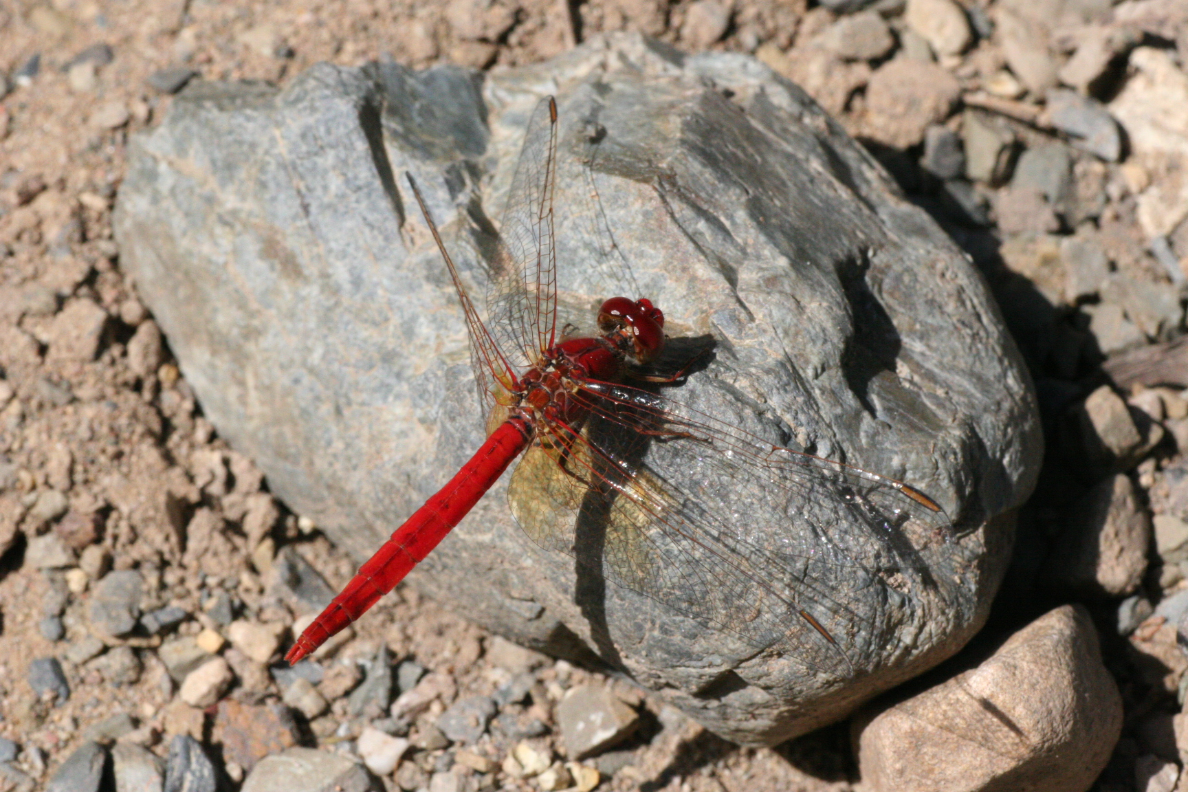 Male of Diplacodes haematodes